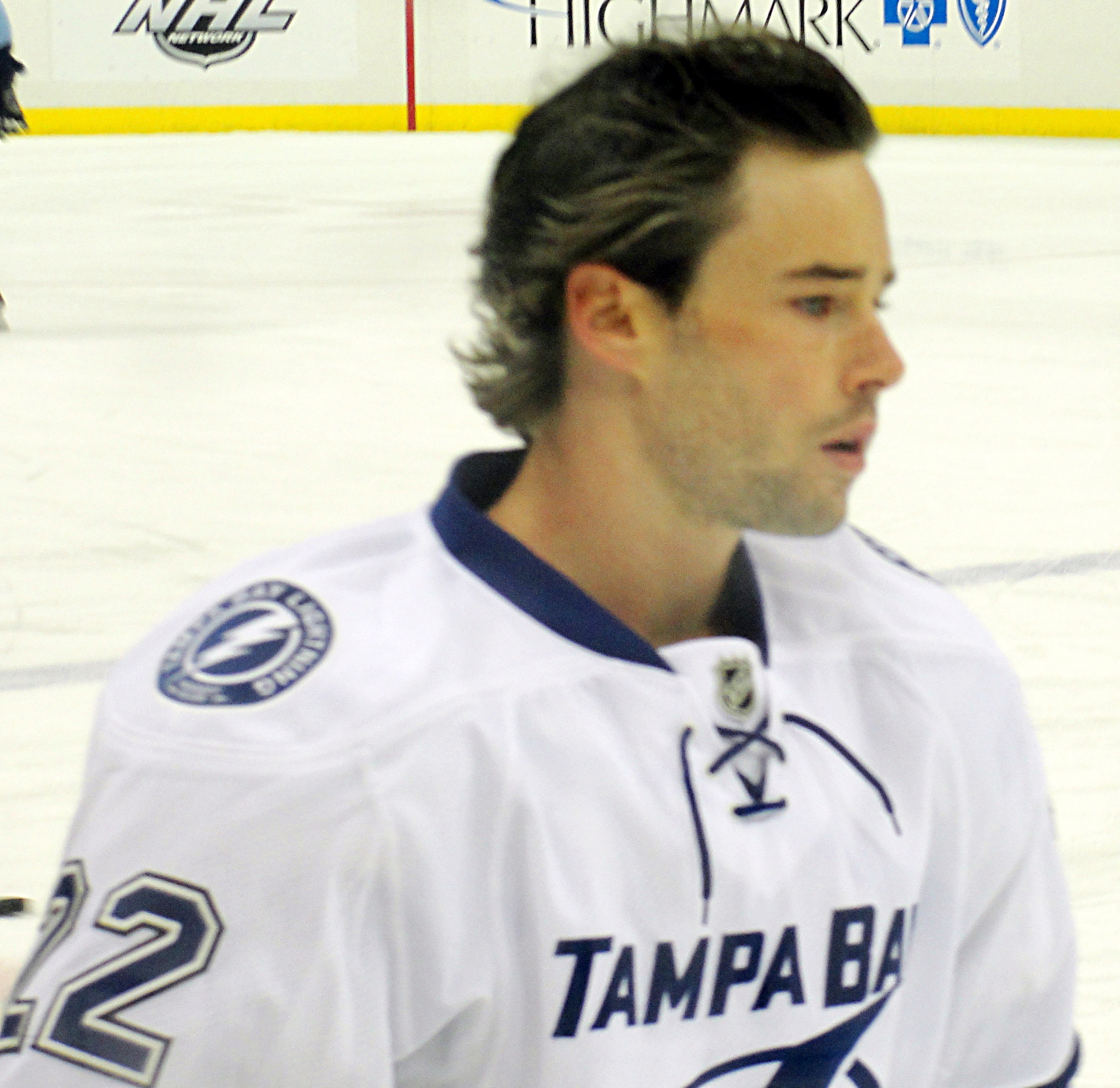 Ryan Shannon of the Tampa Bay Lightning during a February 12, 2012 game against the Pittsburgh Penguins at Consol Energy Center in Pittsburgh, PA.